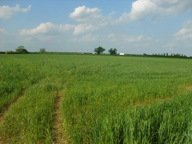 Spring wheat Field of spring wheat viewed from a byroad with the A1 on the horizon.